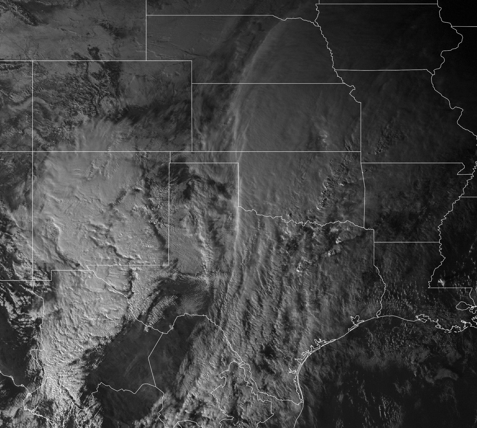 Satellite image of a strong storm system over the Southern United States on December 26, 2015 as seen from the GOES-13 satellite.